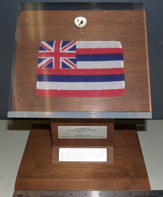 Hawaii Apollo 11 display with 9 inch ruler measurement